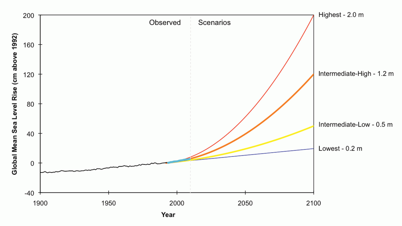 This graph shows projections of global mean sea level rise (SLR) by Parris et al. (2012)[1] In 2100, global mean sea level is projected to rise by 0.2-2.0 m (0.7-6.6 ft), relative to mean sea level in 1992: Scenario / SLR by 2100 (m) / SLR by 2100 (ft) Highest / 2.0 / 6.6 Intermediate-high / 1.2 / 3.9 Intermediate-low / 0.5 / 1.6 Lowest / 0.2 / 0.7 Note: projections are relative to mean sea level in 1992. SLR increases smoothly over the 21st century, with a slight acceleration over time. In 2050, SLR projections approximately range between 0.1-0.62 m (0.3-2.0 ft). Parris et al. (2012)[2] do not assign probabilities to these scenarios. Therefore, none of these scenarios should be interpreted as a best-estimate of future SLR. Notes ↑ Figure 10, in: 4. Global Mean Sea Level Rise Scenarios, in: Main Report, in Parris & others 2012, p. 12 ↑ Executive Summary, in Parris & others 2012, p. 1 References Parris, A., et al. (2012-12-06) Global Sea Level Rise Scenarios for the US National Climate Assessment. NOAA Tech Memo OAR CPO-1[1], NOAA Climate Program Office